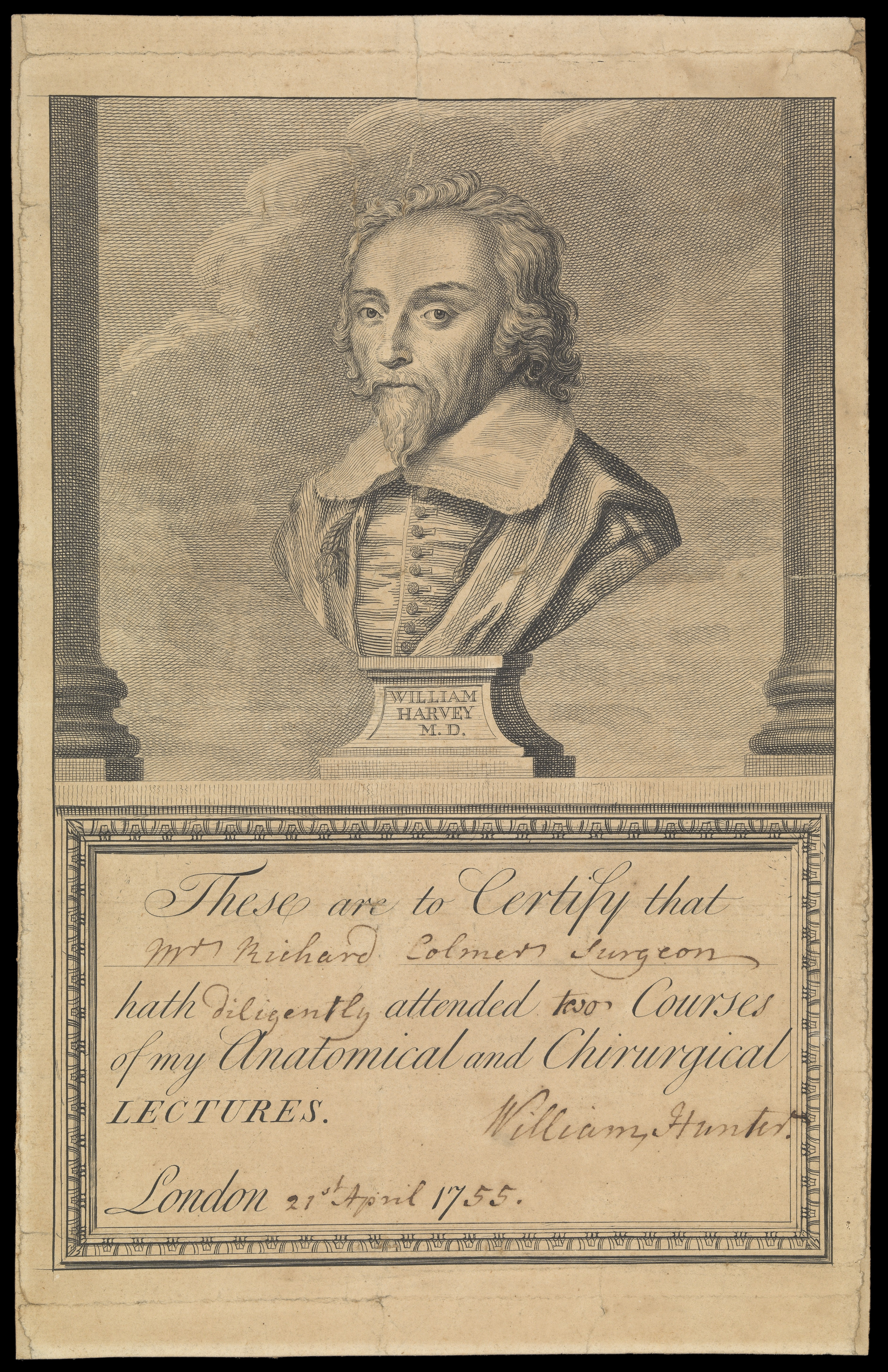 Certificate of attendance (in this case for Richard Colmer, surgeon) at anatomy and surgery courses run by William Hunter. The certificate is signed by him and dated 27th April 1755 by hand. The upper part of the certificate (163 x 179 mm.) is an engraving of a bust of William Harvey. General Collections Keywords: Surgery